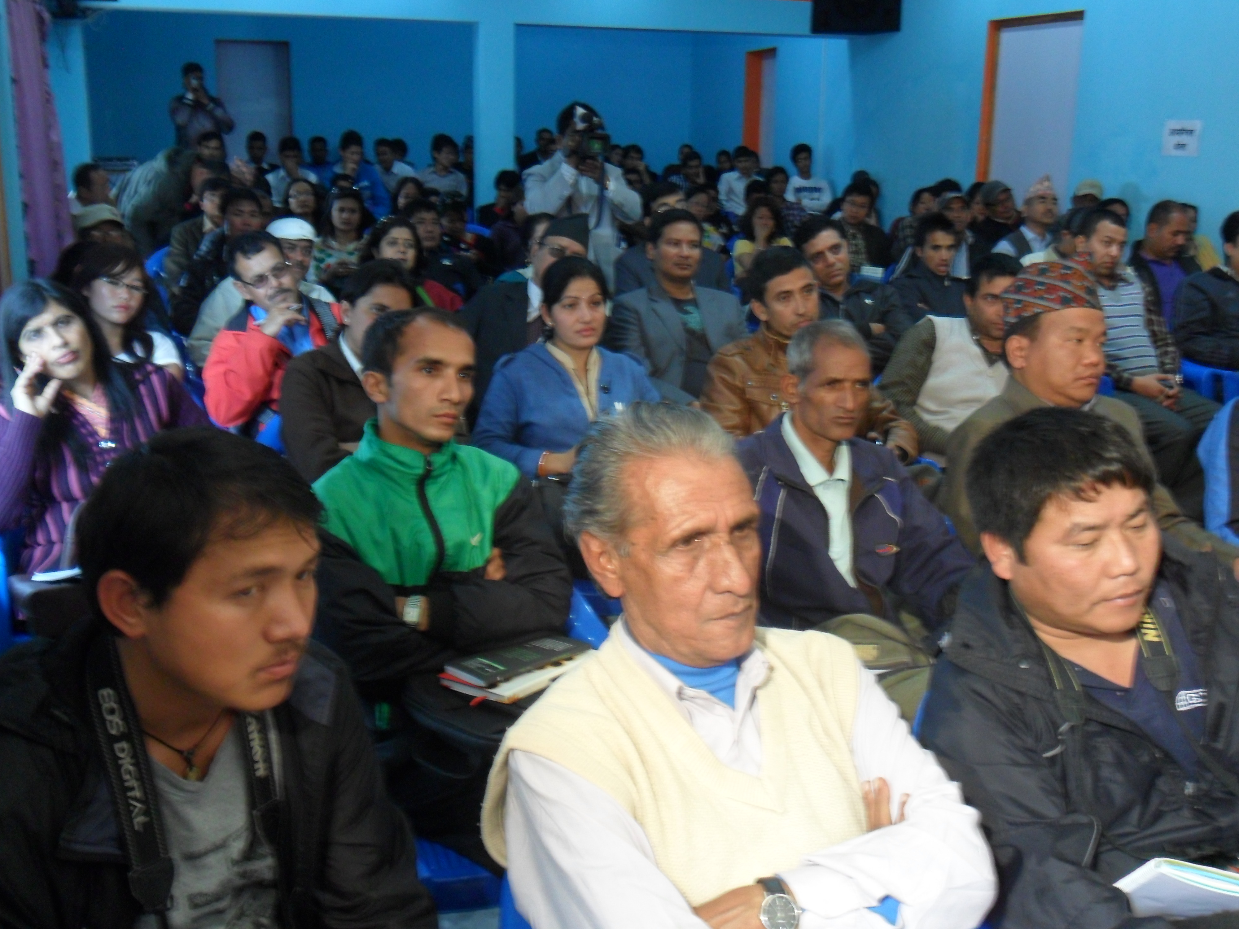 Audiences